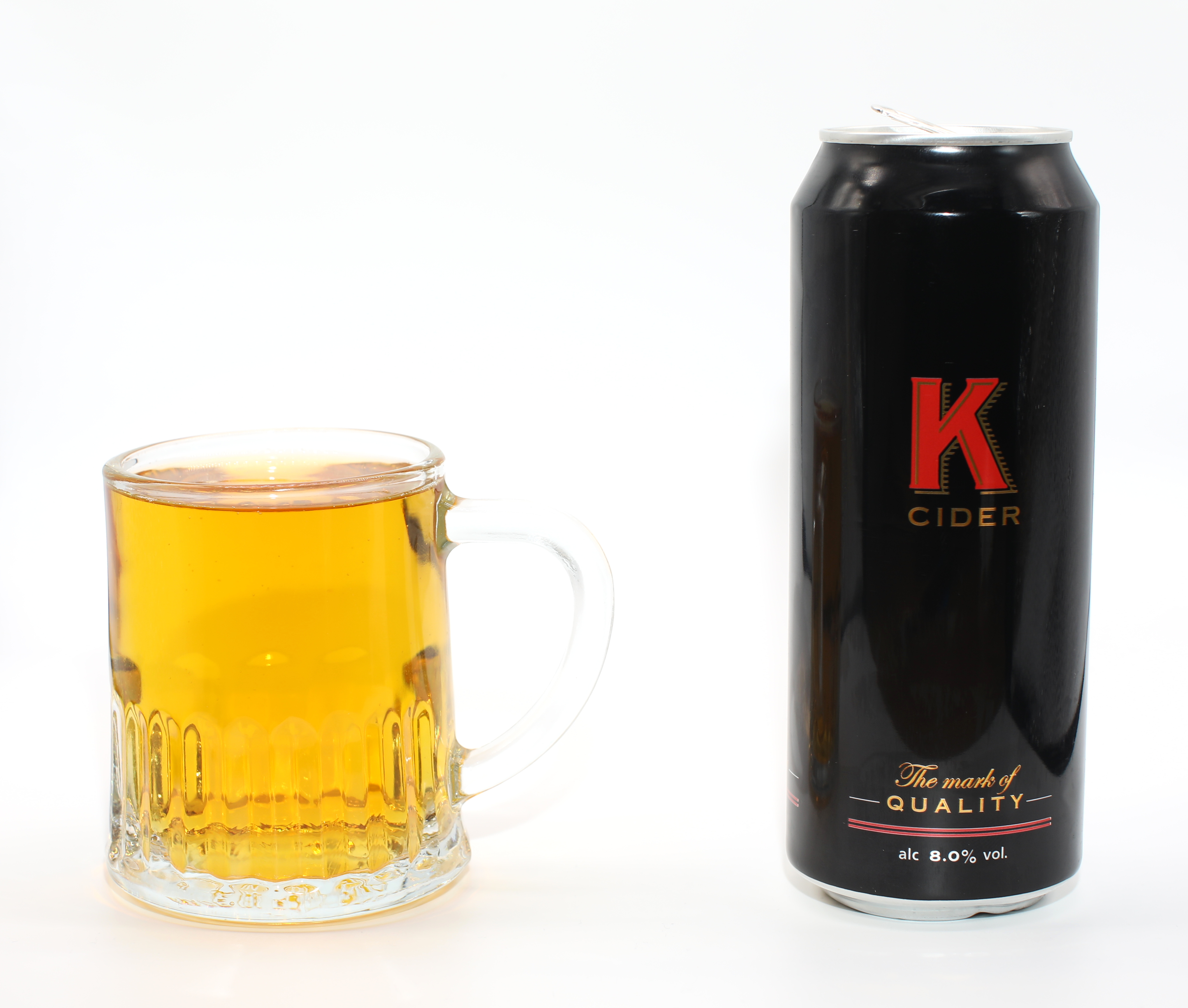 Photo of a can of K cider and glass of K cider